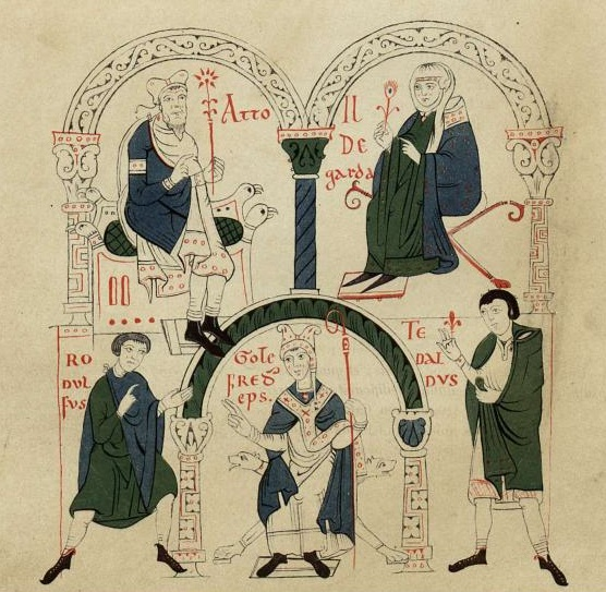 Page of the Vita Mathildis. From left to right: on top: Atto (Adalbert Atto of Canossa) and his wife Ildegarda(Hildegard). On the bottom: Rodulfus. (possibly a brother of Tedald named Rudolph), Gotefred eps. (bishop, possibly a brother of Tedald named Godfrey) and Tedaldus(Tedald of Canossa).